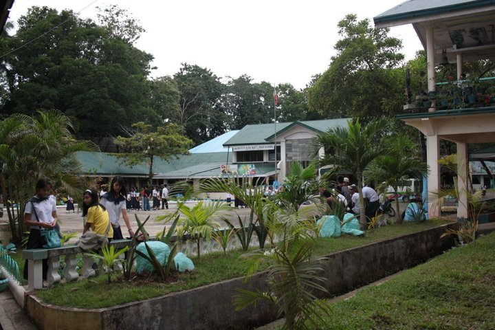 captured near JPENHS library